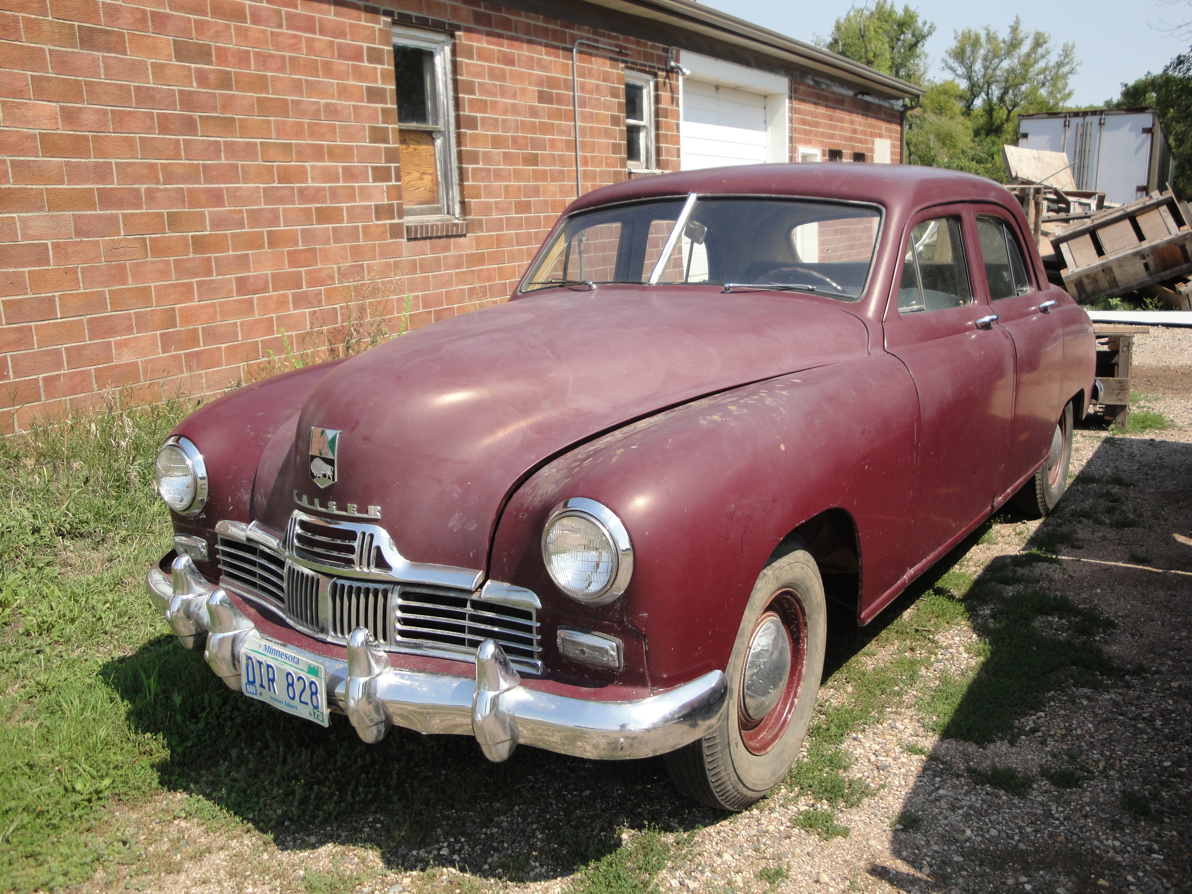 with A/C (air conditining)